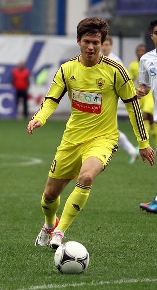 Jakob Jantscher playing for FC Anzhi Makhachkala in 2012.